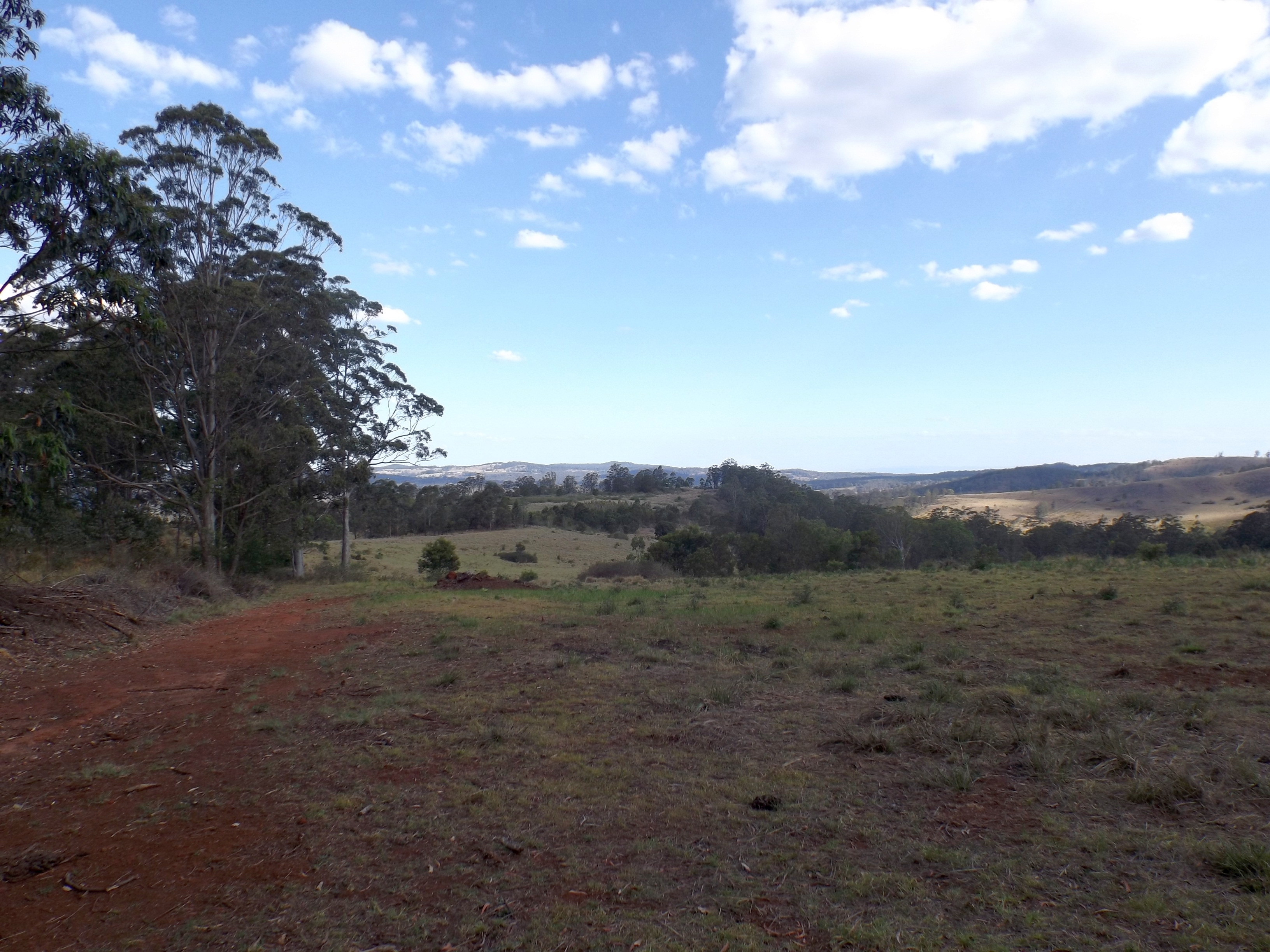 Photo of fields along Grapetree Road at Grapetree, Queensland, Australia.